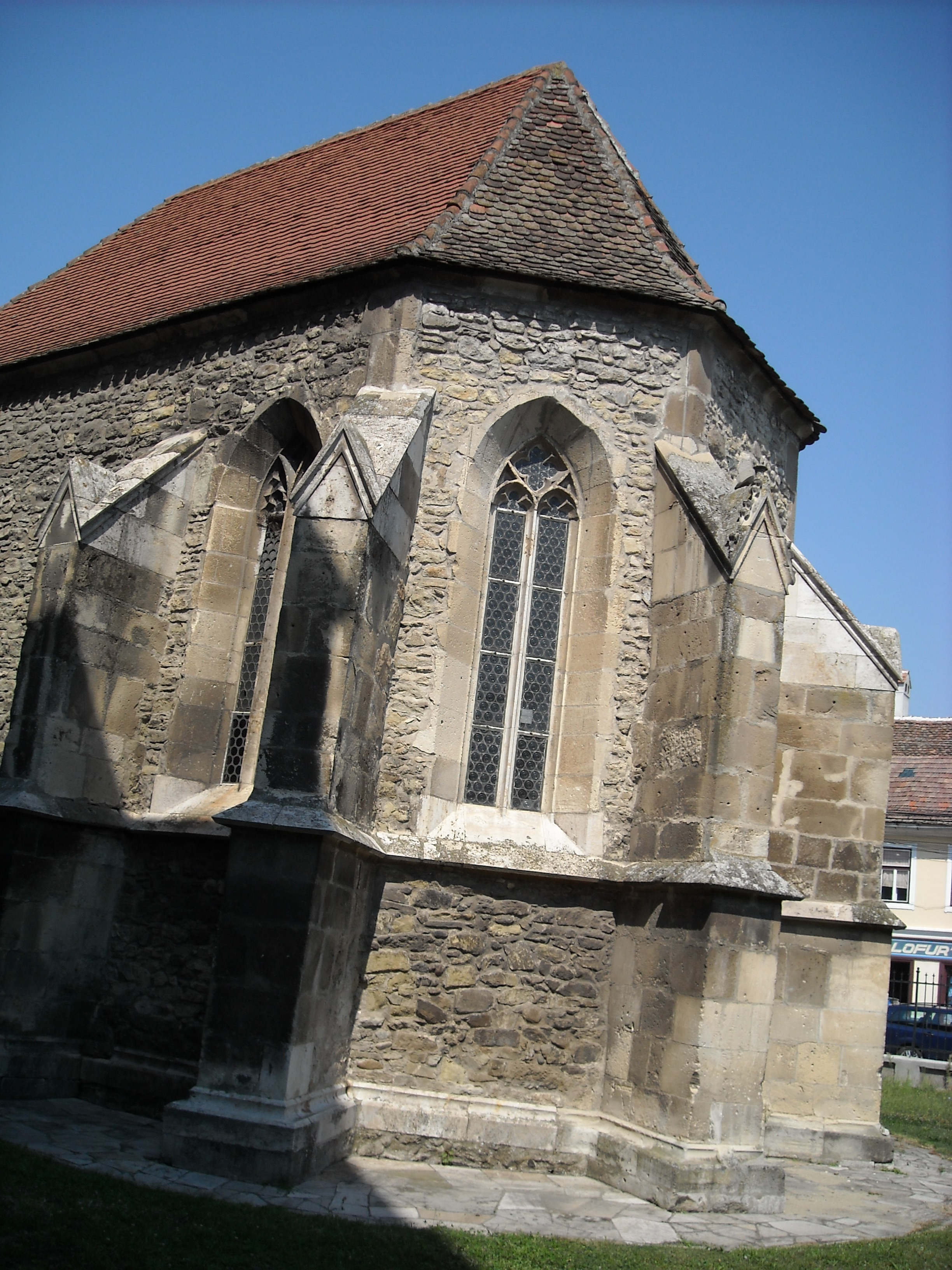 Evangelical Church in Sebeş (Mühlbach) 01